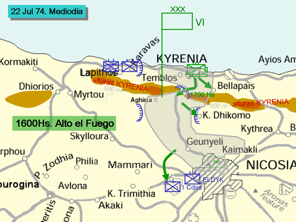 Situación al mediodía del 22 de Julio.